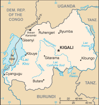 Map of Rwanda, showing major cities.